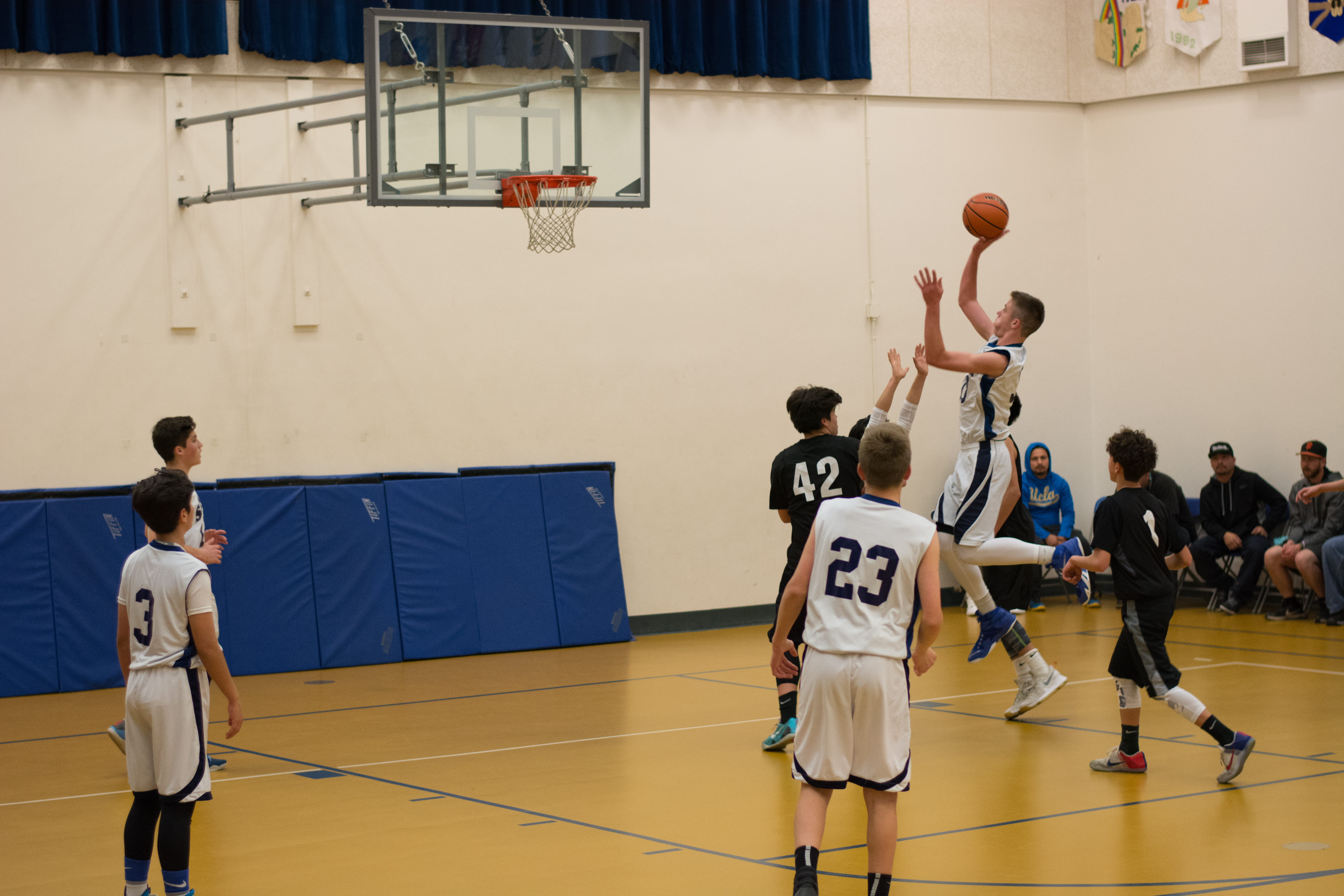 8th grader, J.T. Byrne, shooting